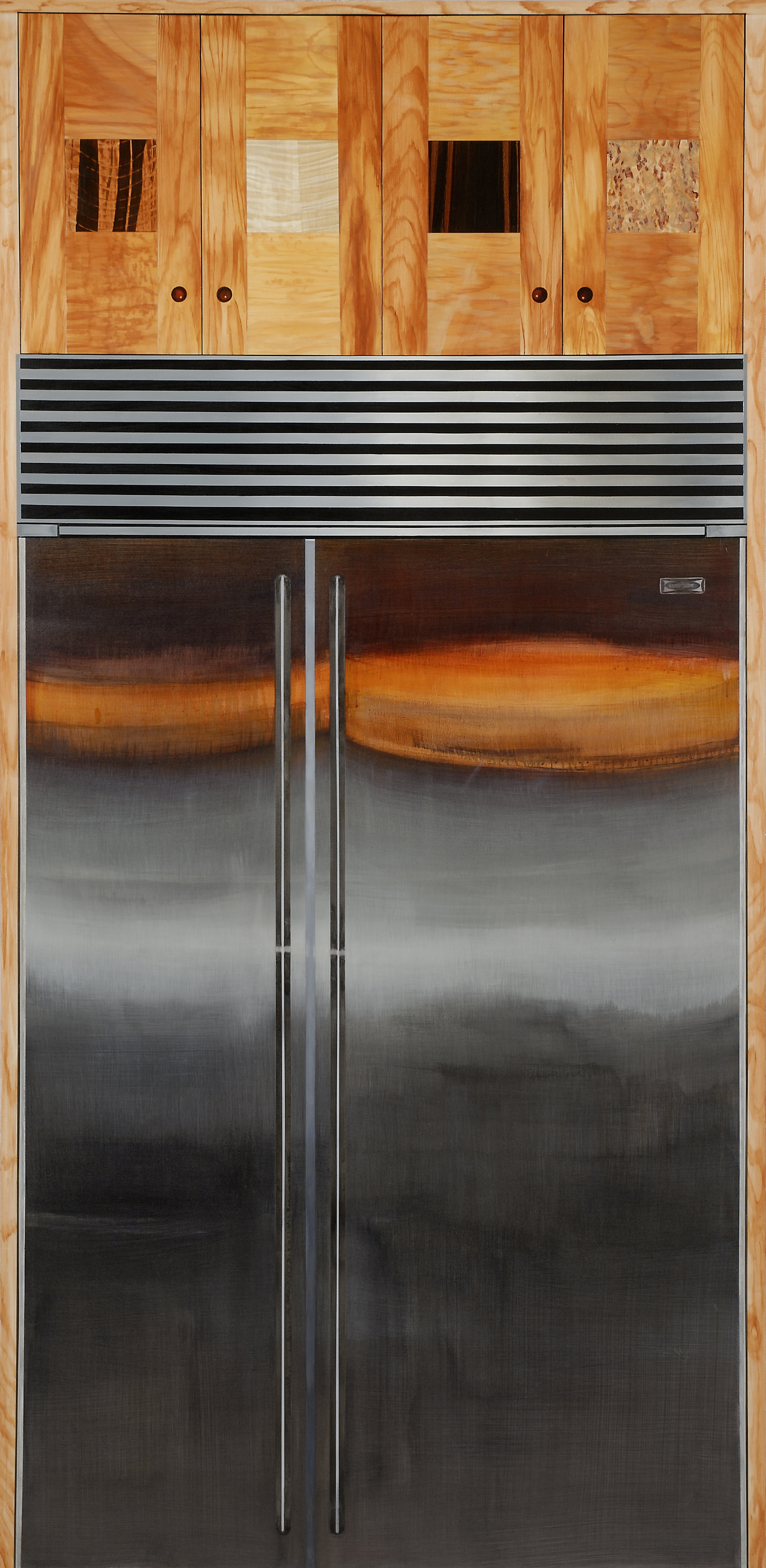 a photo of "The Rosenfelds"